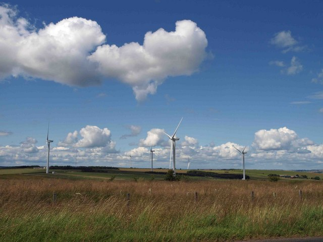 Moorland and a wind turbine farm from Hedley Hall Lane, Tow Law Wind turbines dominate the area.